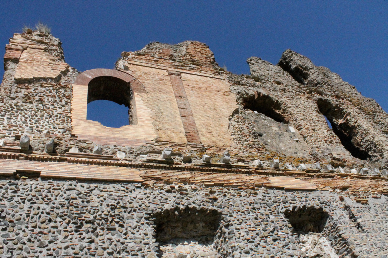 Anguillara Sabazia, roman villa of "Mura di Santo Stefano", ruins of the 3 floors building, left side